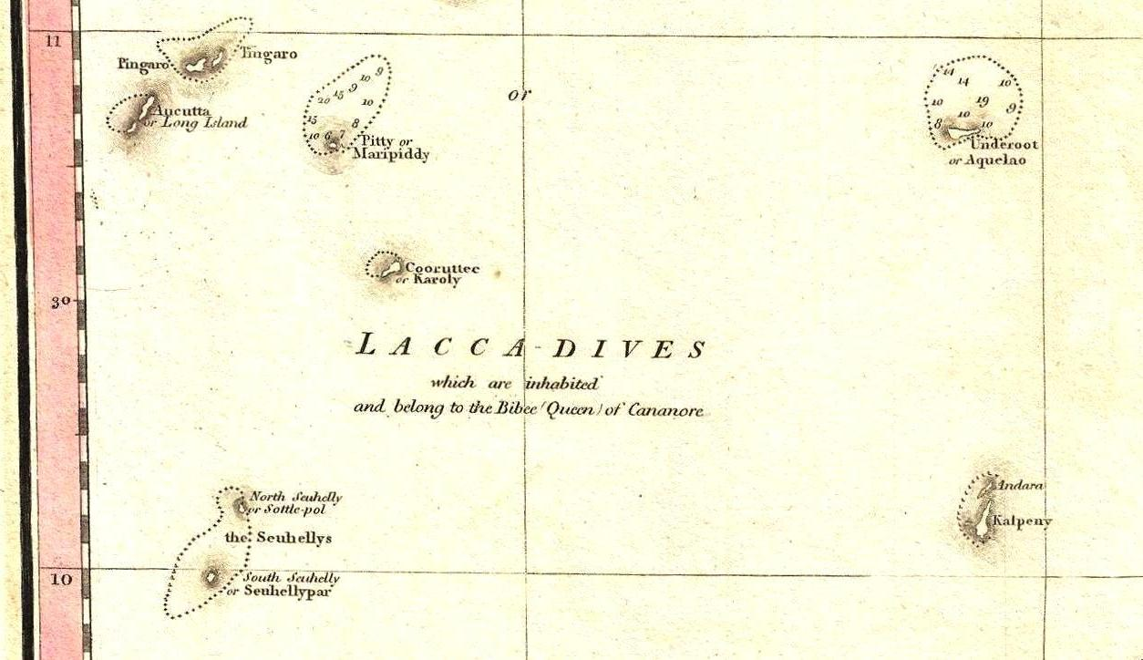 The cannanore Islands on a 1800 Faden Rennell map